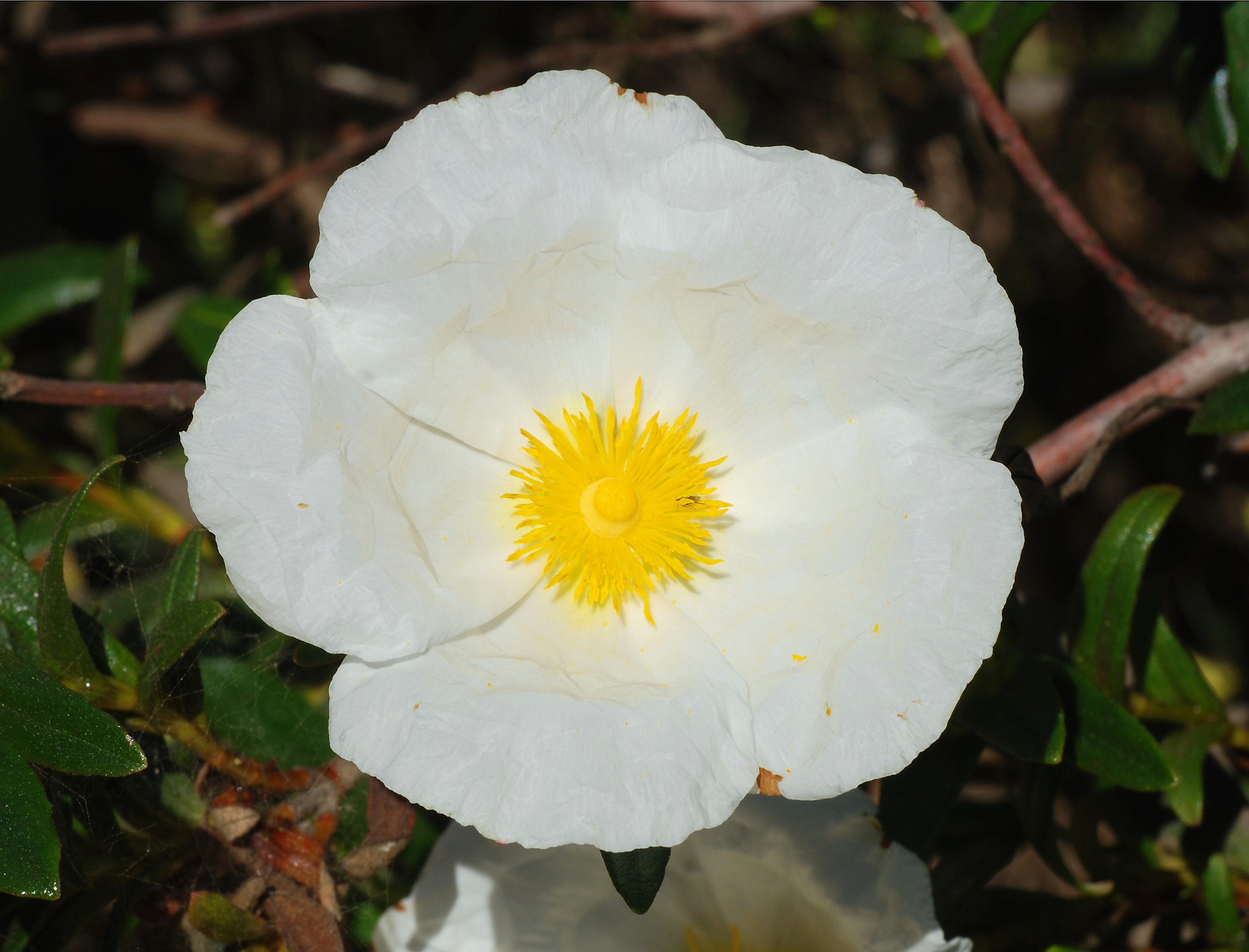 Narrow-leaved Cistus